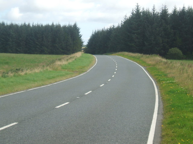 A98 near Craigmaud Main Banff to Fraserburgh road.